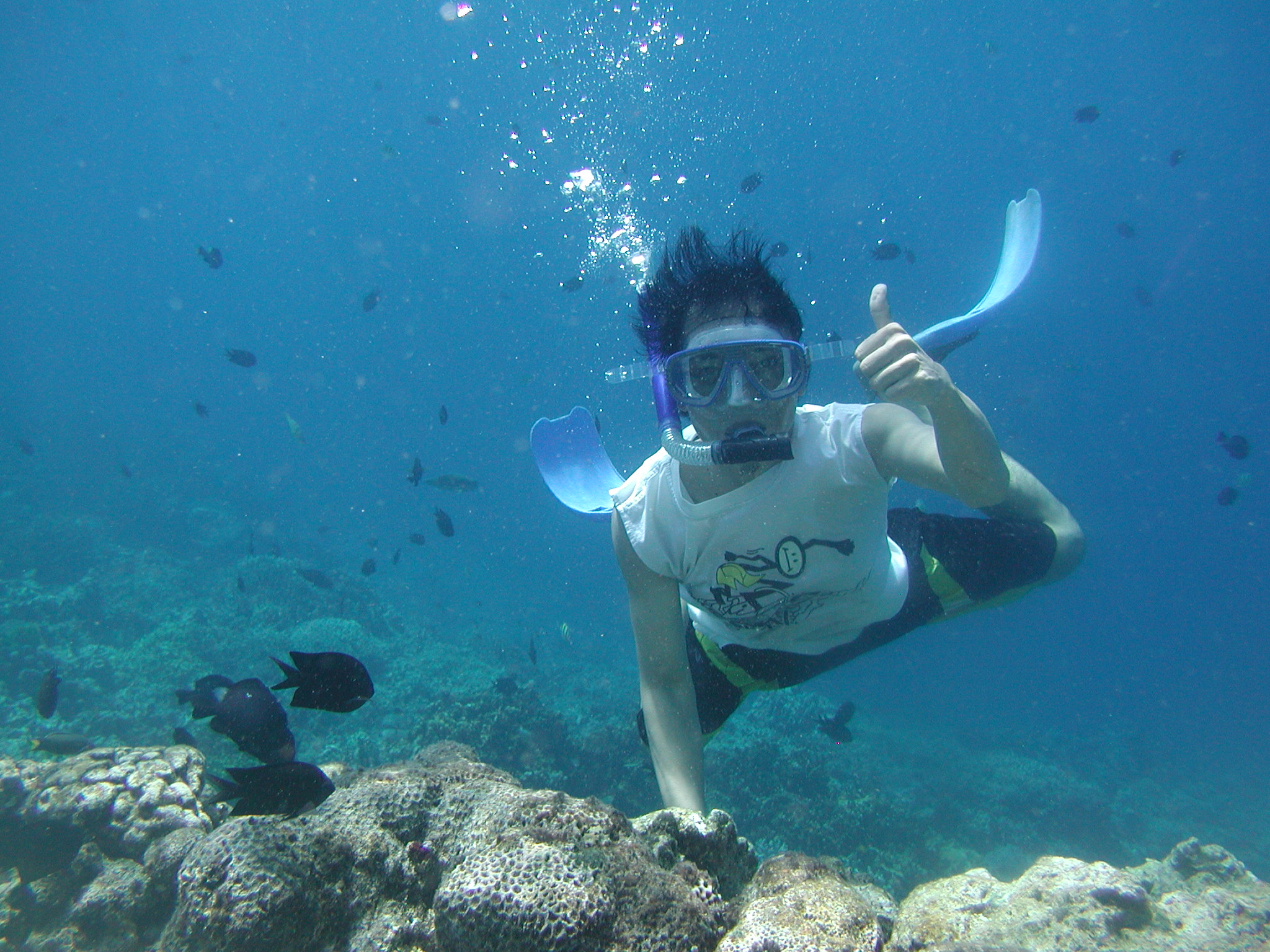 For people like Diving or snorkeling